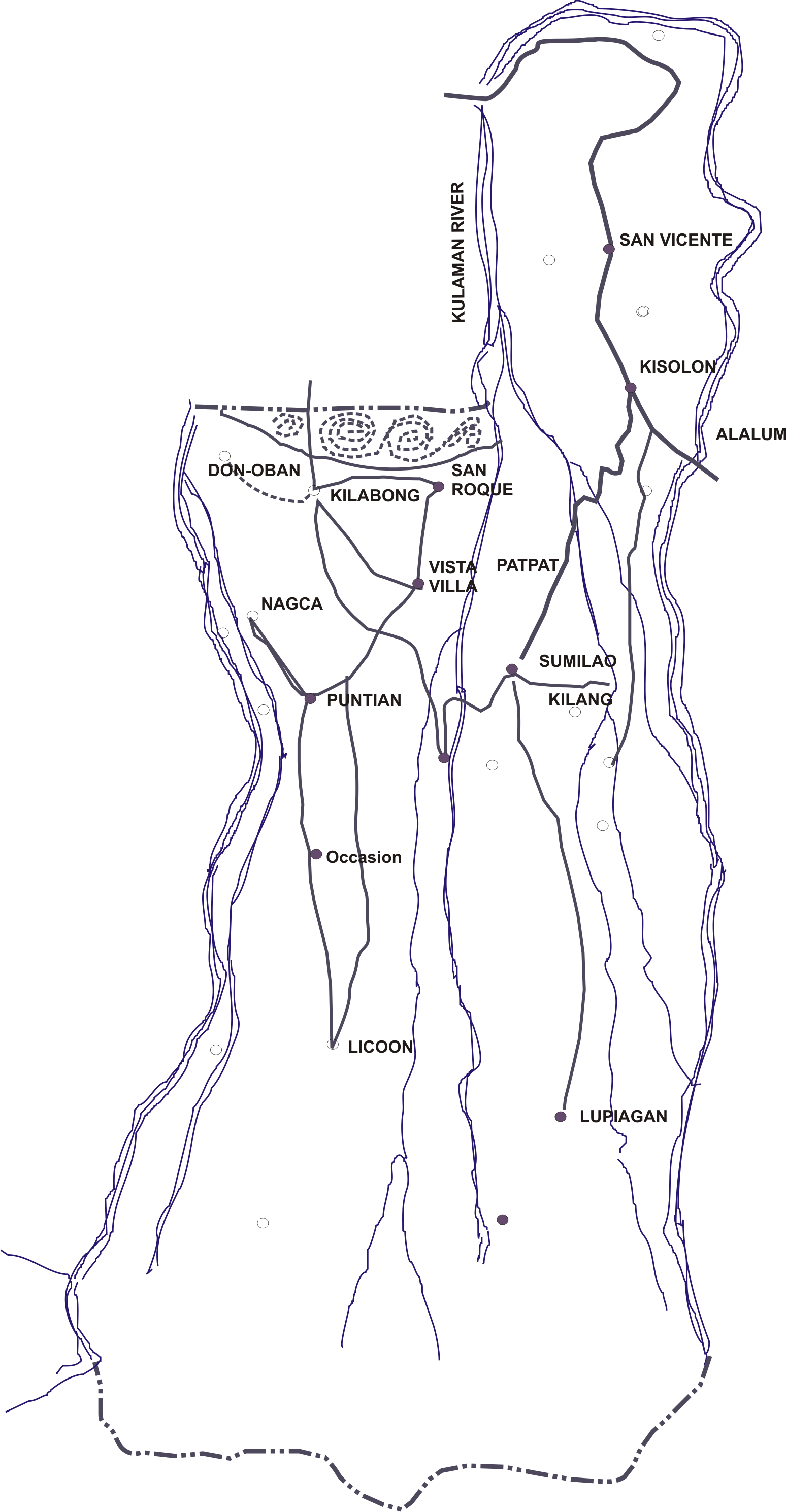 Political map of Sumilao, Bukidnon